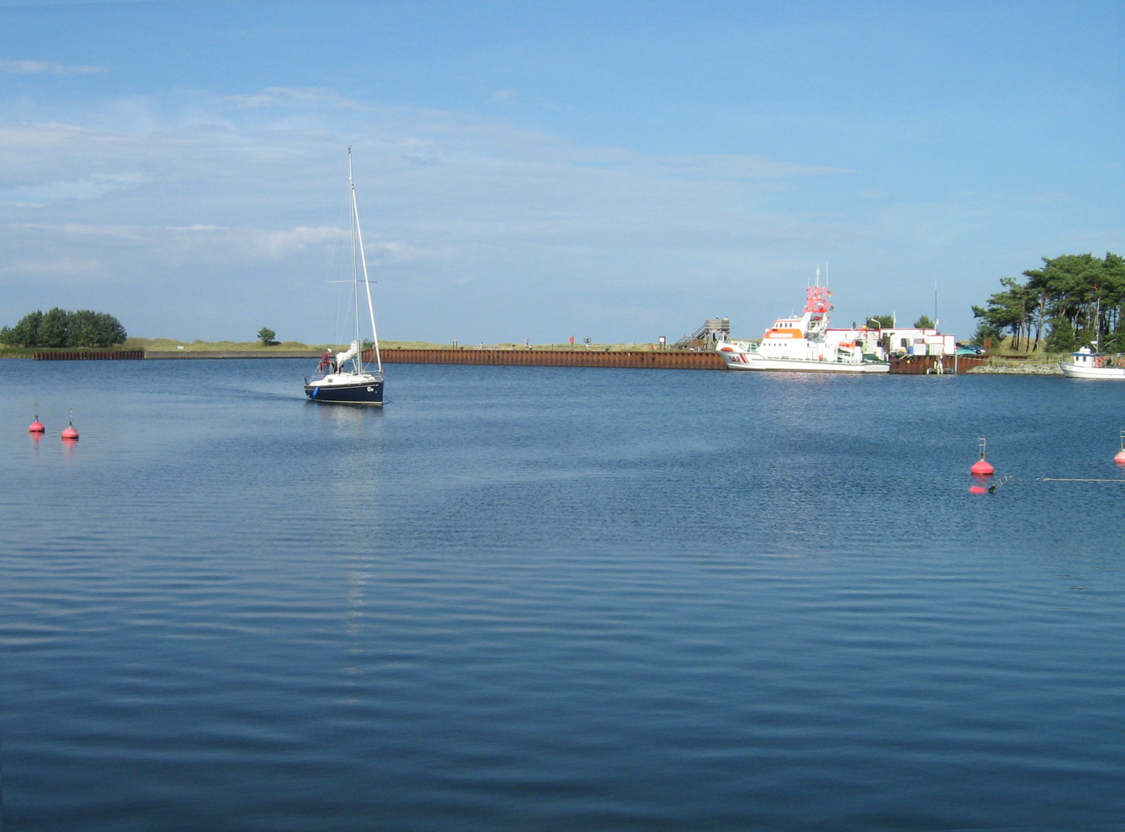 Emergency-port of Darßer Ort in Germany